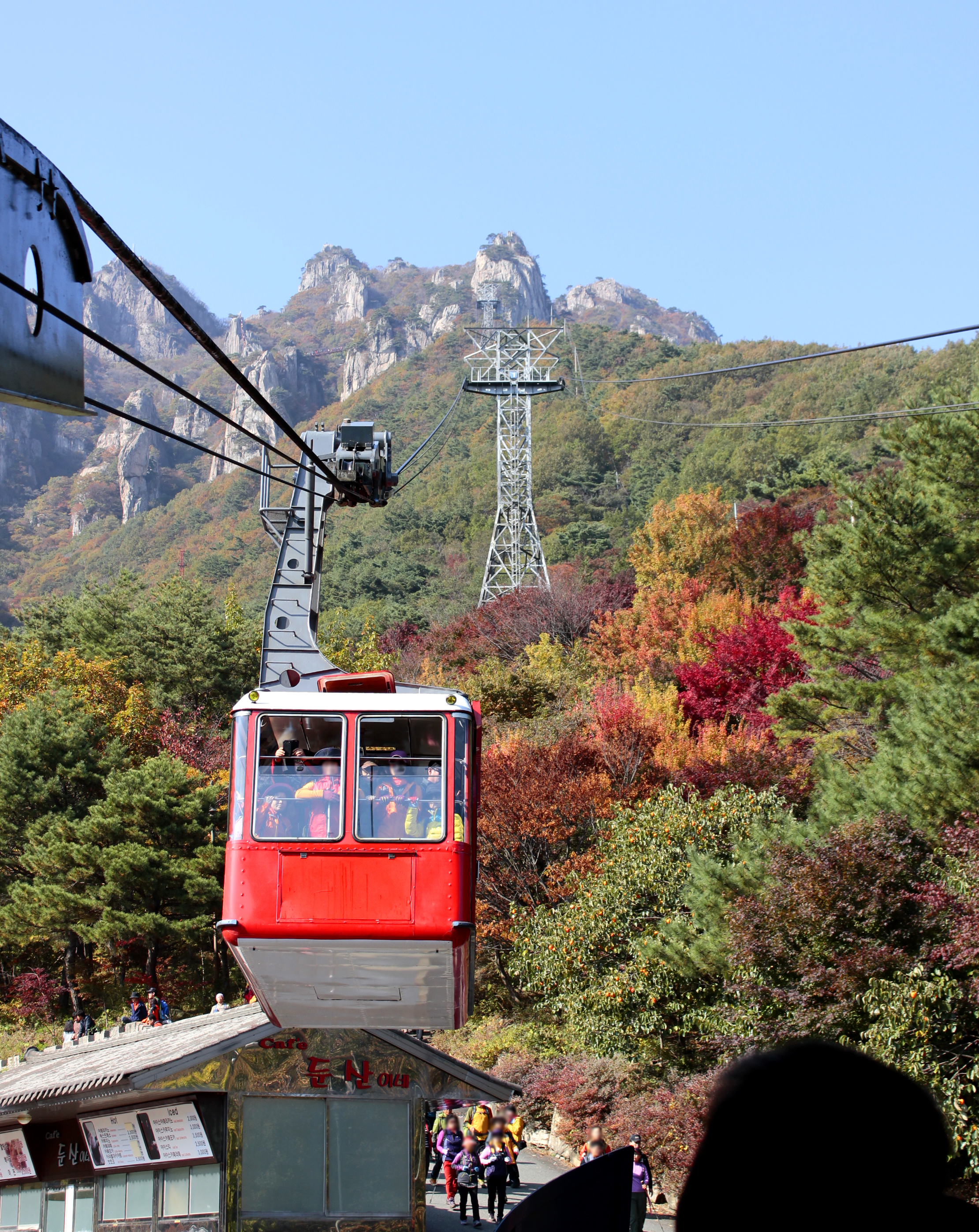 Mt. Daedunsan Cable Car